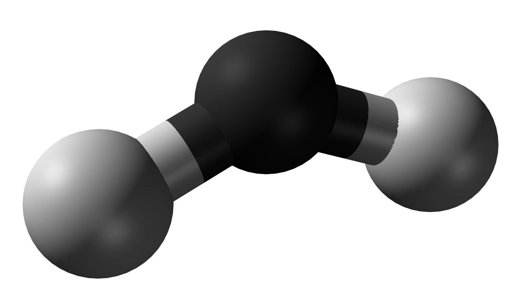 Ball-and-stick model of the triplet methylene molecule, 3CH2. Structural data from ISBN 4-00-007986-7.